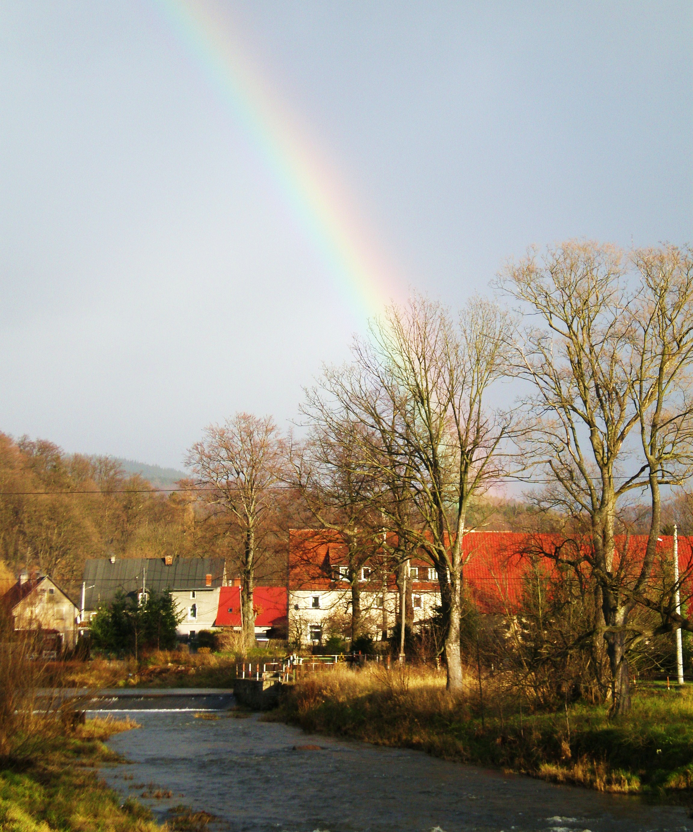 Janowice Wielkie - Nadbrzezna Street - rainbow